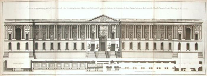 Engraving from Jean Mariette's L'Architecture francoise (Paris, 1738): elevation of the principal facade of the Louvre Palace on the east side (facing the church of Saint-Germain l'Auxerrois), built during the reign of Louis XIV and the minister Jean-Baptiste Colbert, according to the designs of the architect Claude Perrault